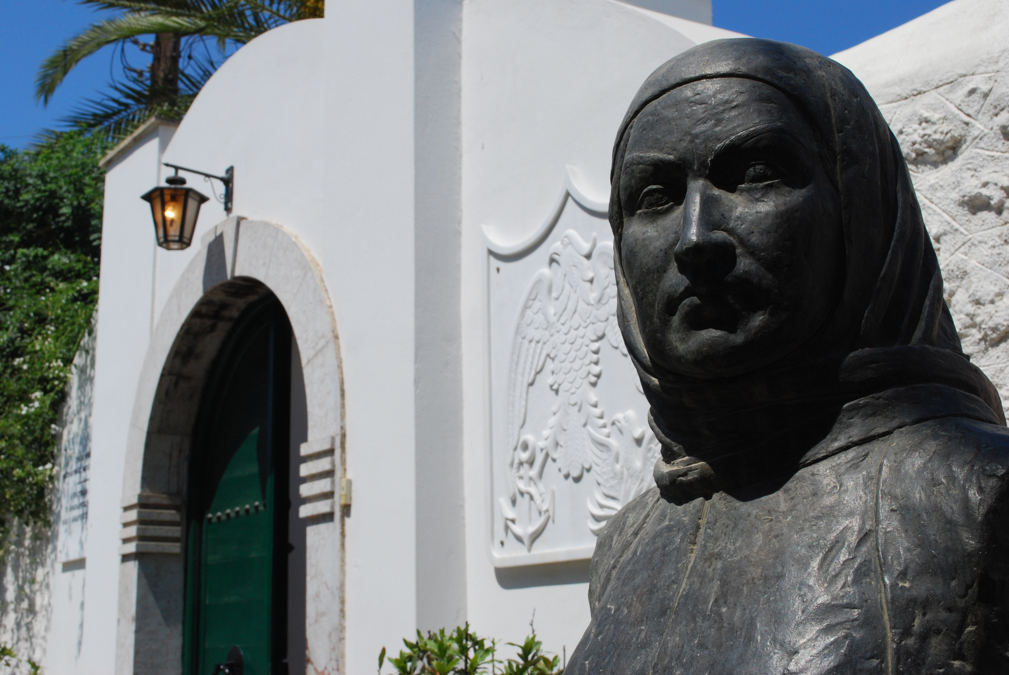 The house of Laskarina Bouboulina in Spetses.